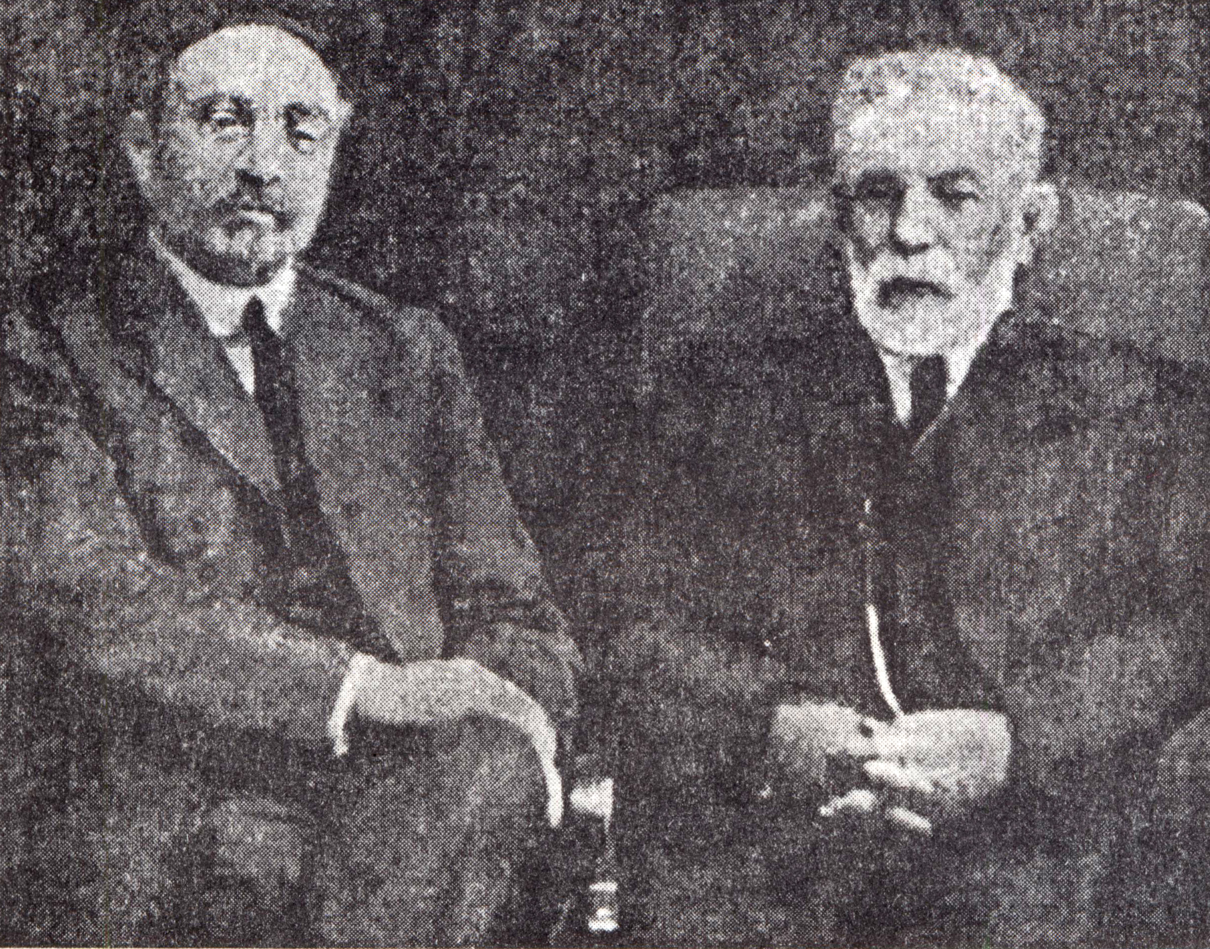 Hovhannes Qajaznouni. Published before 1920